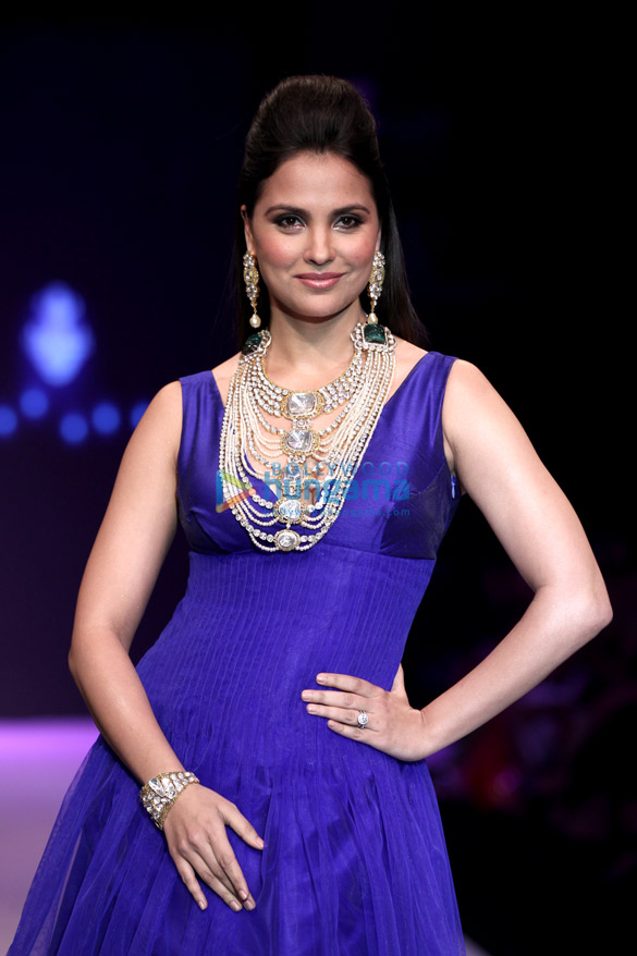 Lara Dutta walks for Birdhichand Ghanshyamdas at IIJW 2013